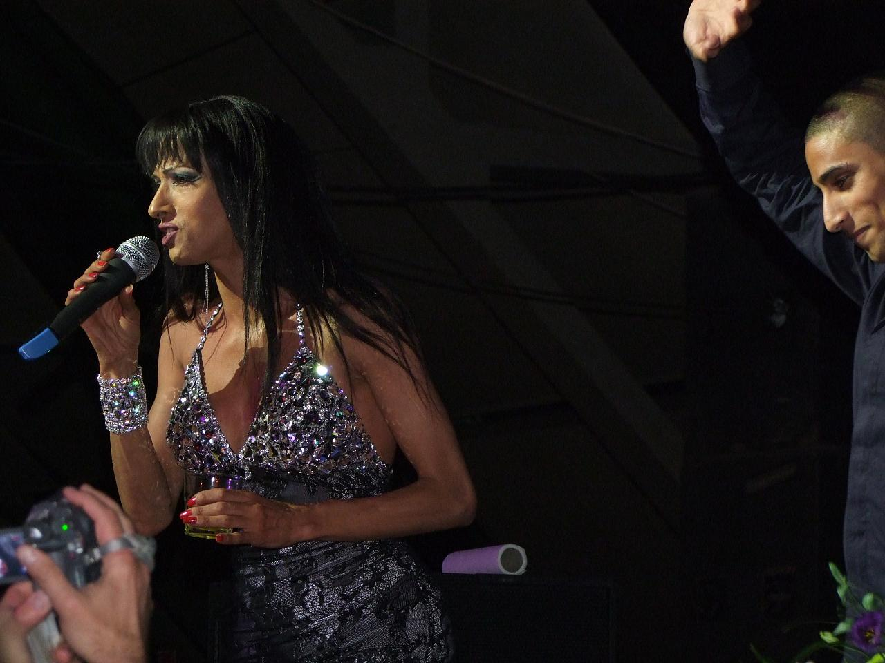 Israeli singer Dana International (with Boaz Mauda)